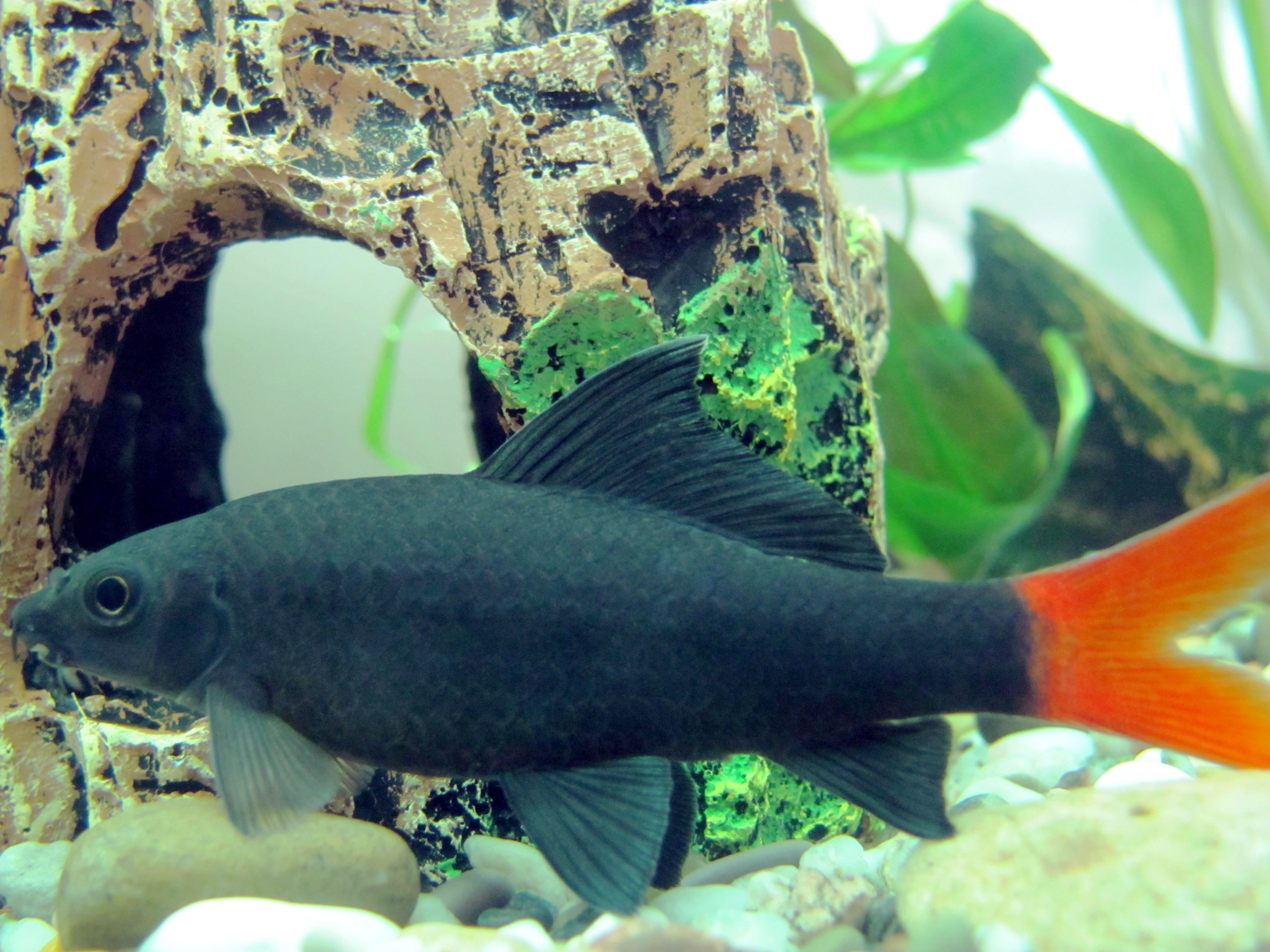 Epalzeorhynchos bicolor, good quality